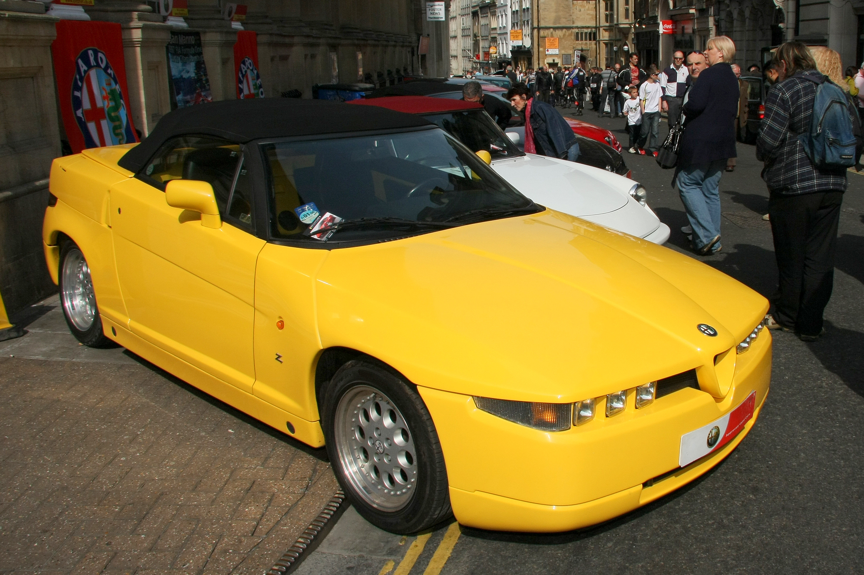 Bristol Italian Car Day 2010